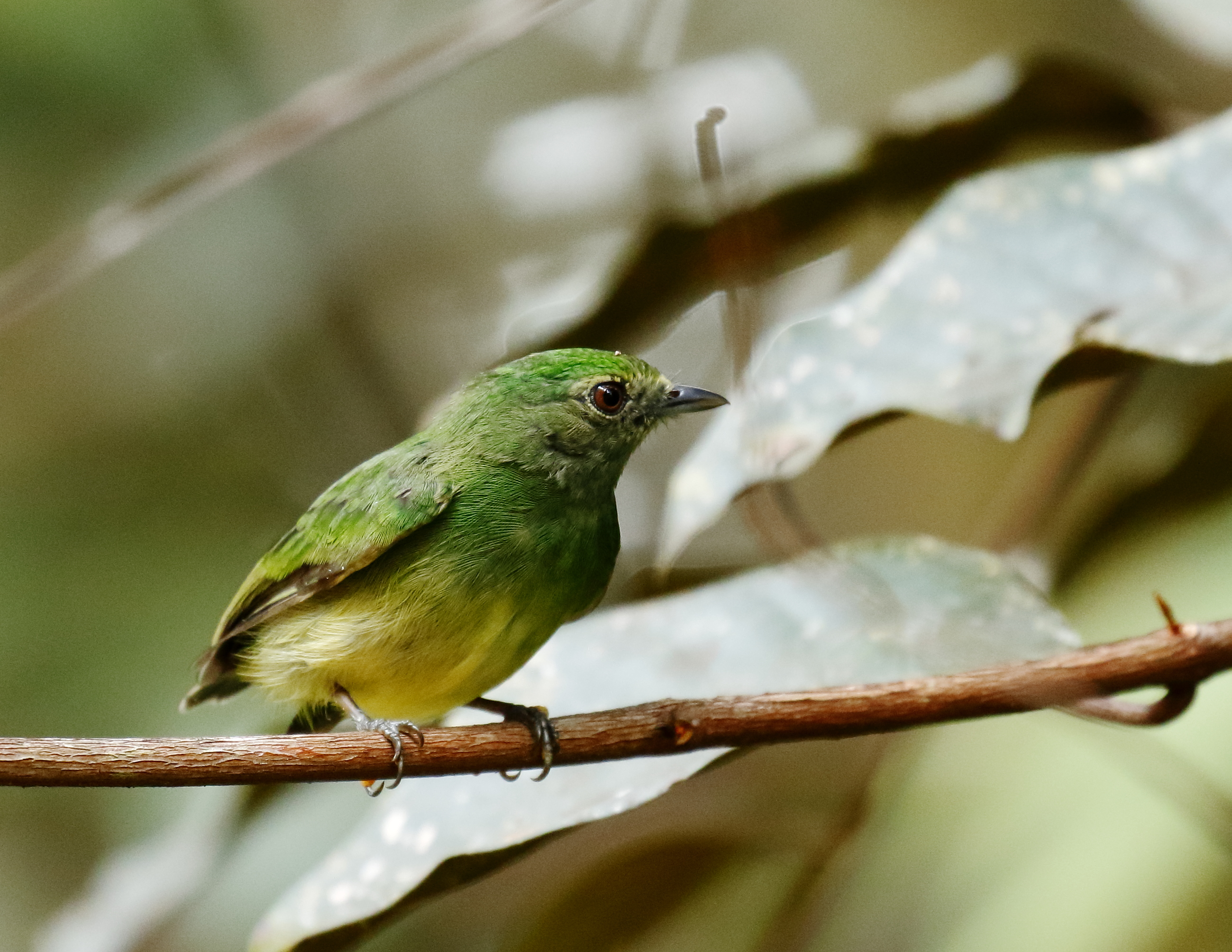 Blue-crowned manakin (female), Careiro, Amazonas, Brazil